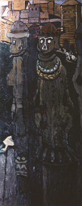 "Slavic Idols". A painting from the Museum of Oriental Art in Moscow.